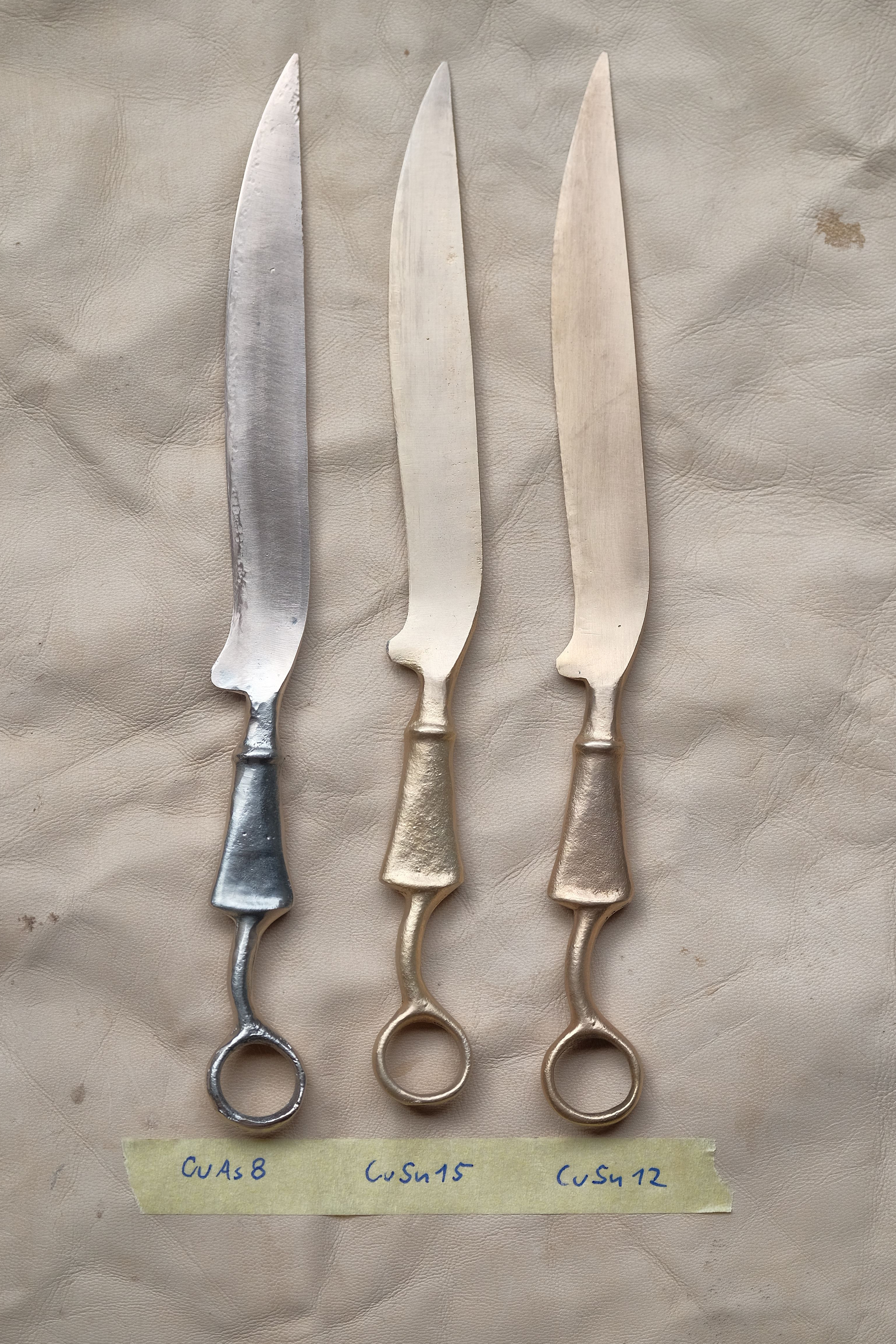 Three reproductions of bronze age knives. The knive on the left has been cast using arsenical bronze (approx. 8%wt As) and shows the typical silverish sheen of arsenical copper alloys. The knives in the center and on the right were cast in tin bronze (CuSn15 and CuSn12, respectively). CuAs8 can be cold-worked to a hardness similar to a CuSn8 alloy and shows similar properties alike. When arsenic content rises above 8%wt the bronze becomes brittle and is of no advantage.